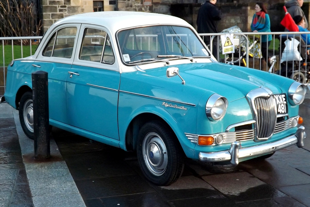 Riley 1.5 The Rallye Monte Carlo Historique XVII started from Paisley Abbey on 23rd January 2014, the only UK starting point for this event